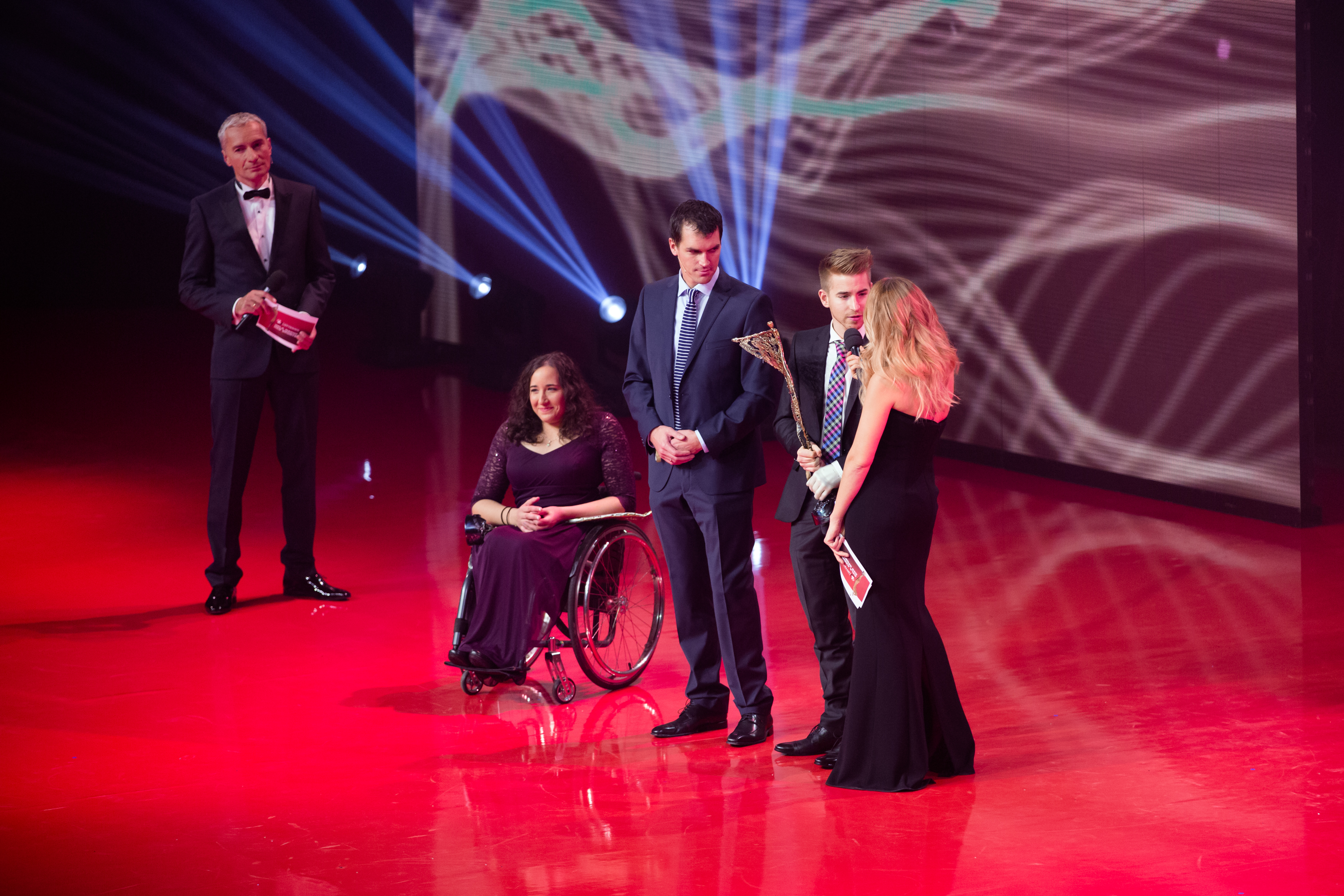 Claudia Lösch and Patrick Mayrhofer with laudator Matthias Lanzinger and presenters Mirjam Weichselbraun and Rainer Pariasek at the gala for the Austrian Sportspersonalities of the Year 2015 (Austria Center Vienna).